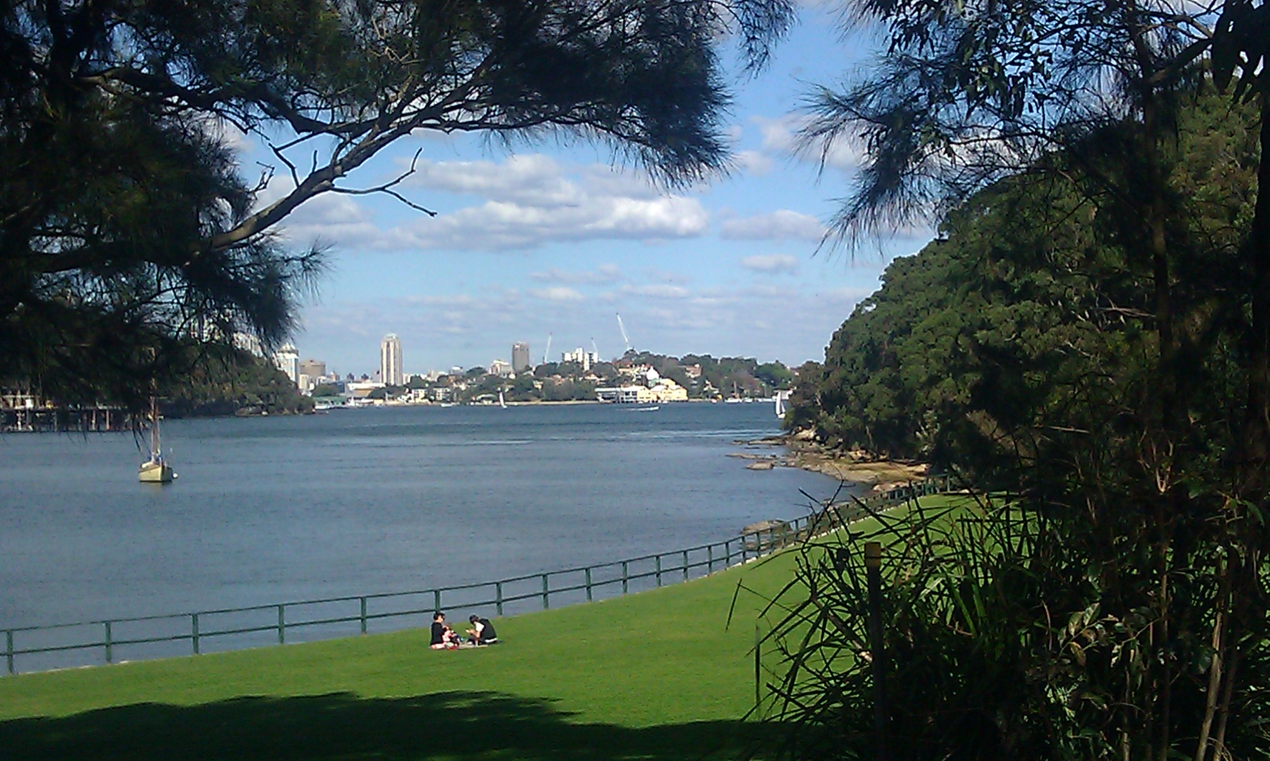 Berry Island reserve, Wollstonecraft, NSW 2065, Australia